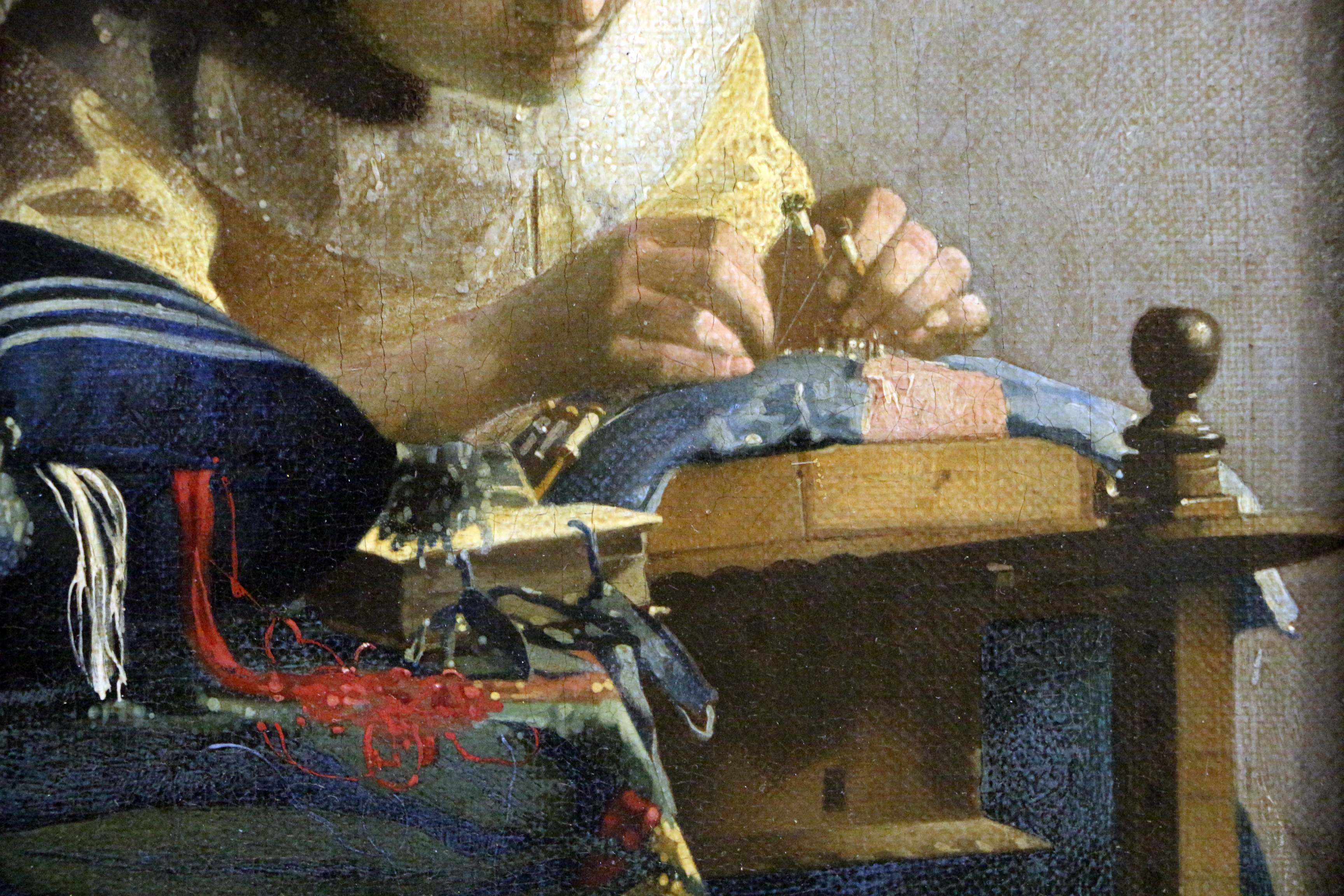 Dutch paintings in the Louvre